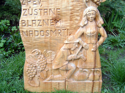 By madman, woodcutter Jar. Buncko.